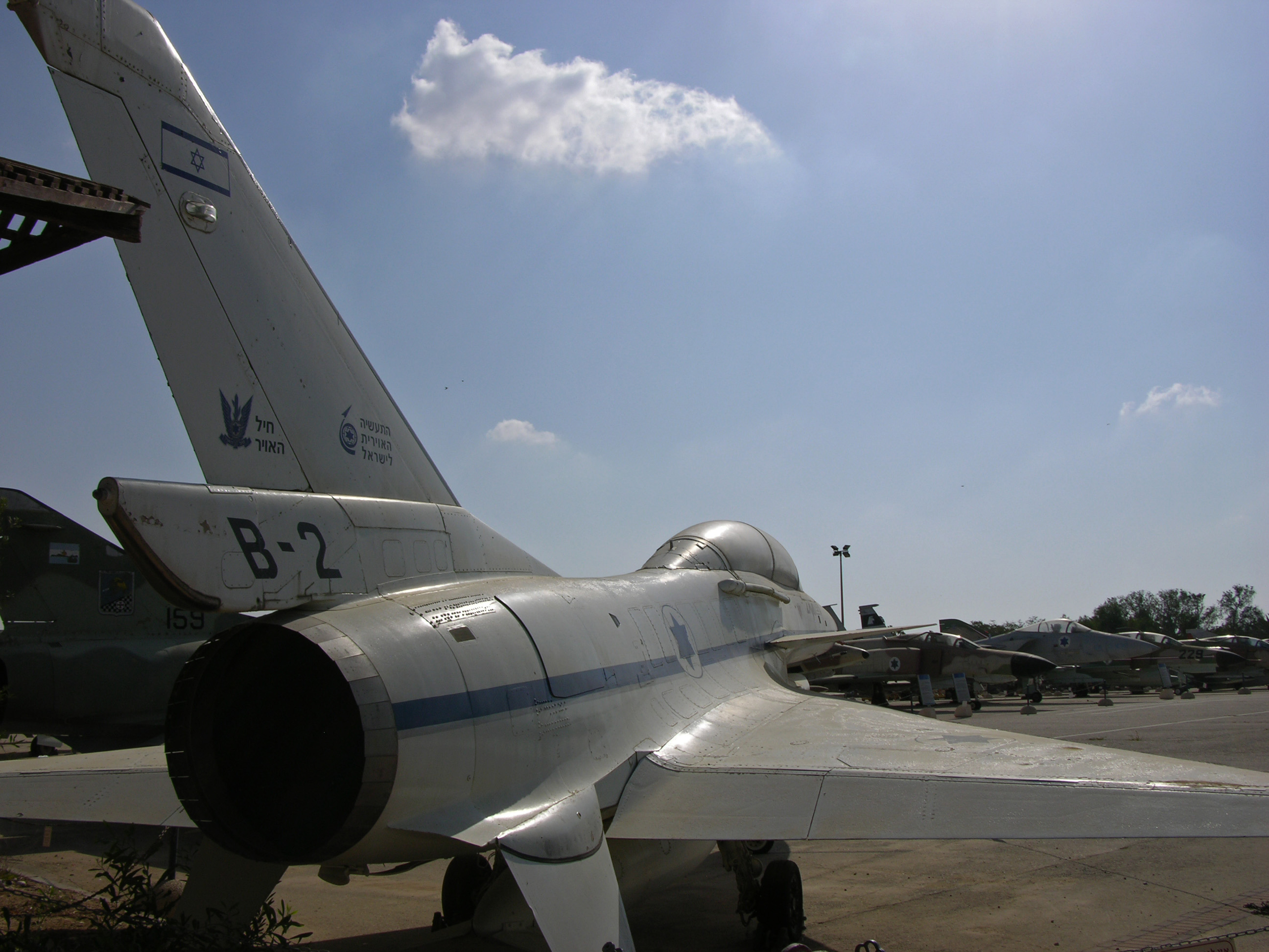 Back view of the Lavi fighter